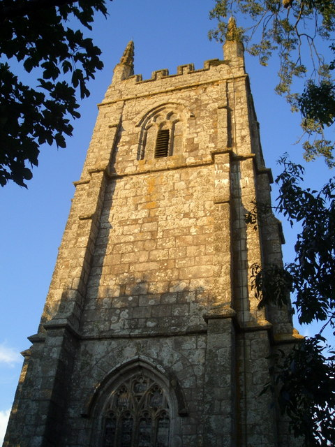 Parish Church of St Goran, Gorran Churchtown.